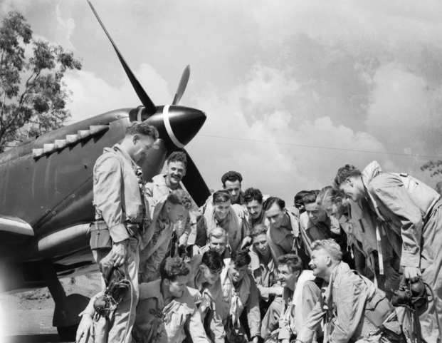 AWM caption: "Strauss, NT. c. December 1944. Pilots of No. 452 (Spitfire) Squadron RAAF being briefed by the Commanding Officer, Squadron Leader L. T. (Lou) Spence (right, kneeling)."